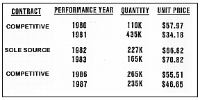 Cost of the first production runs of the M734 Multi Option Fuze